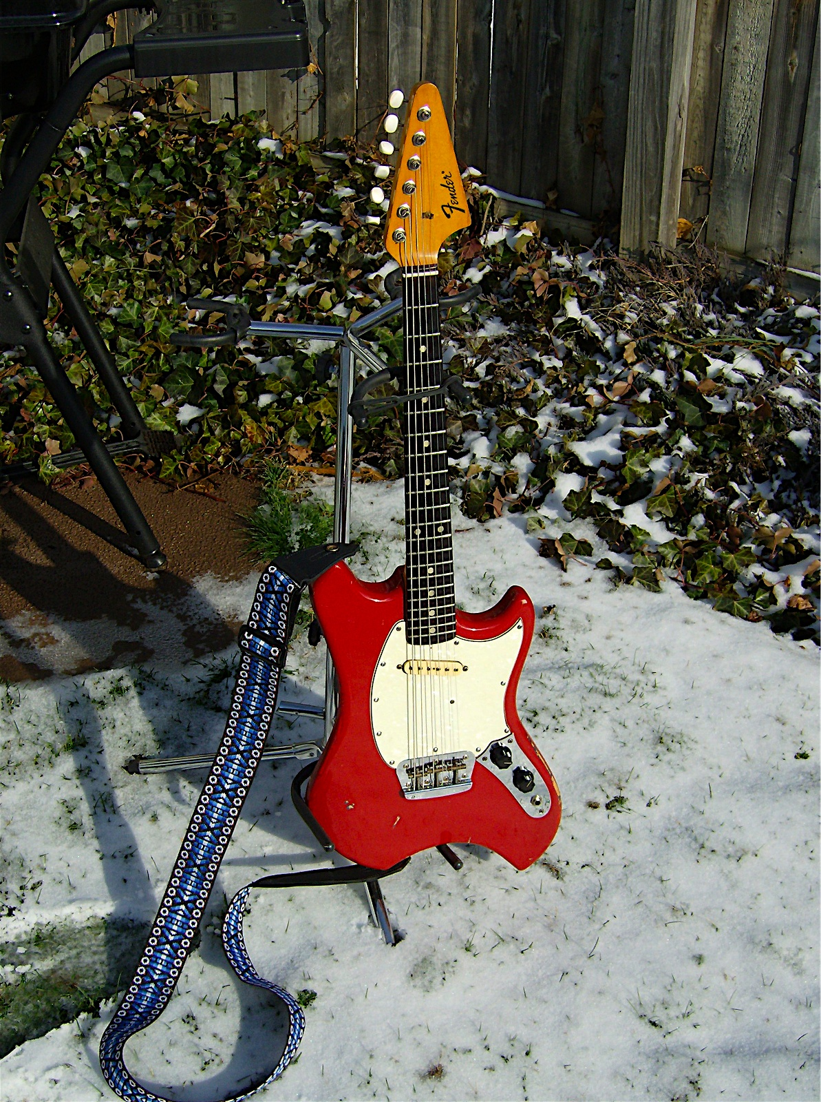 A Fender Swinger with original paint.